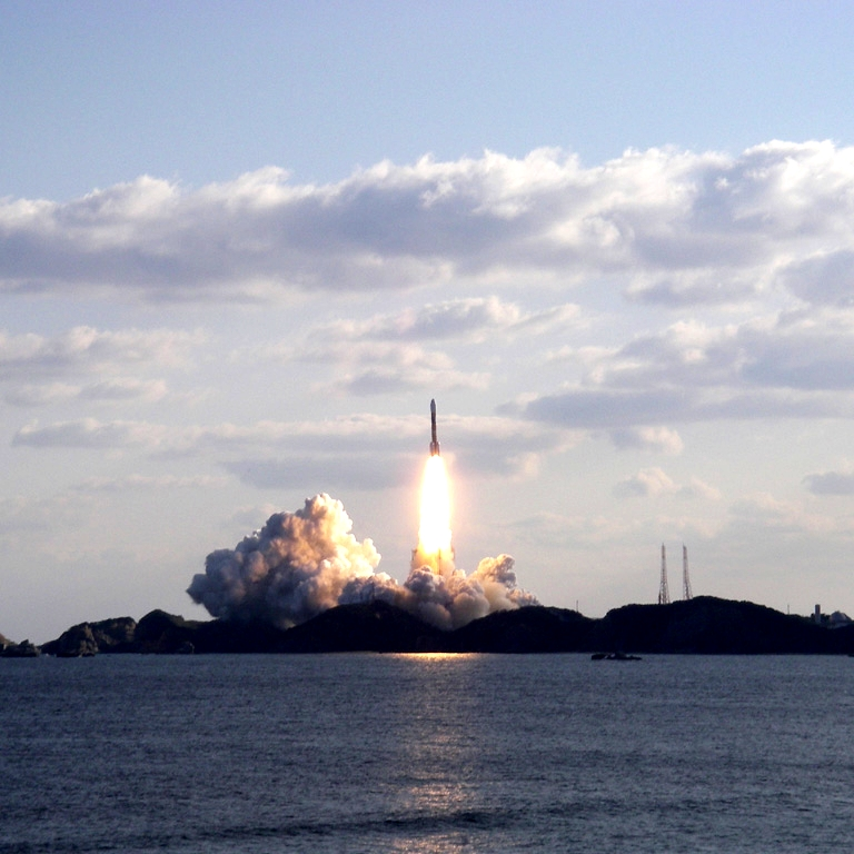 Launch of H-IIA Flight 11. A rocket takes off in the Tanegashima Space Center, Japan.